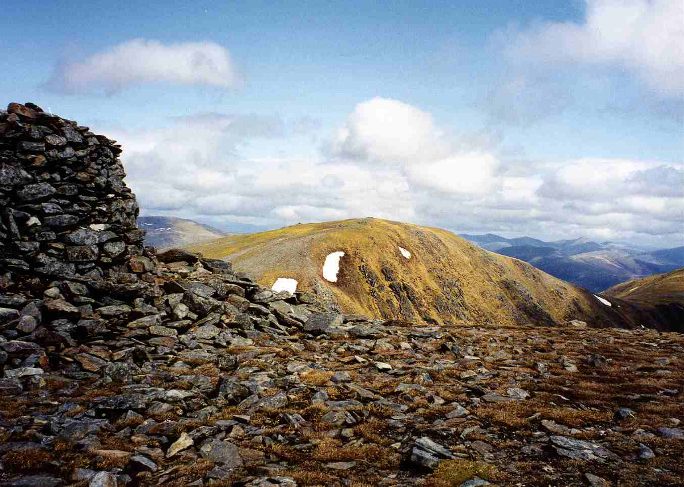 Càrn Eige seen from the large cairn on Mam Sodhail .